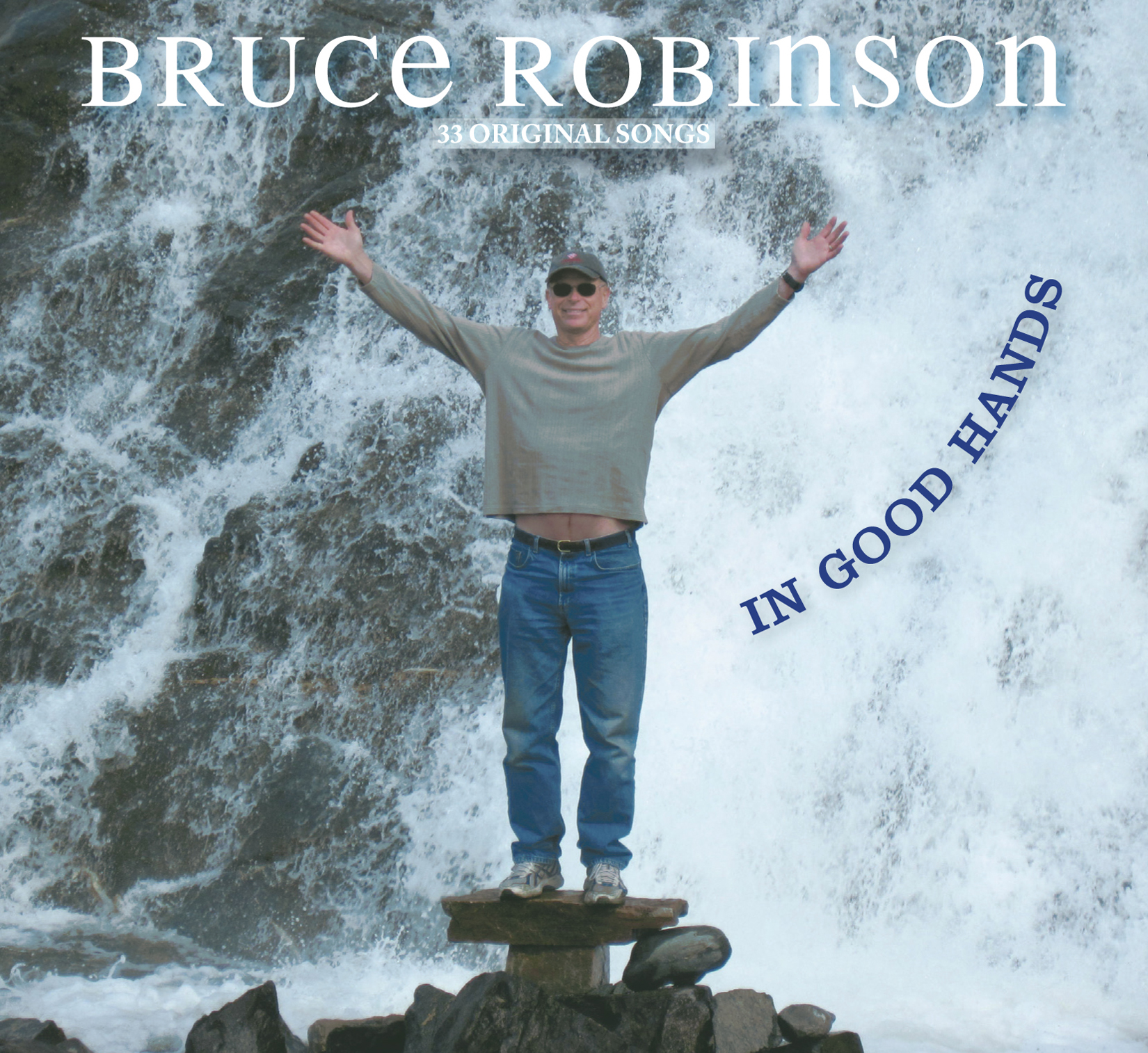 Bruce Robinson's 2012 double cd, In Good Hands cover photo